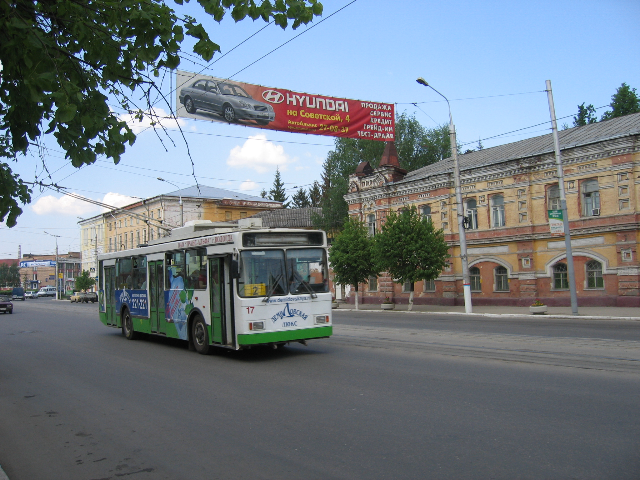 A trolley in Tula, Russia